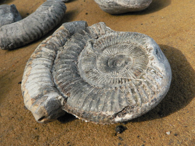 Ammonite at Port Mulgrave There are lots of fossils to be found at the base of the cliffs.